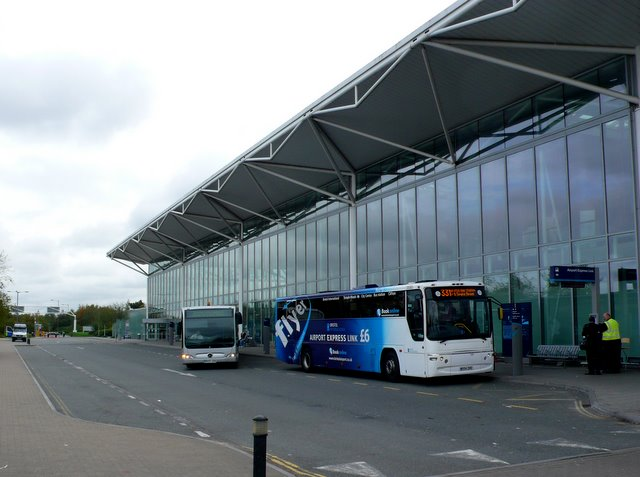 Main Terminal Bristol Airport The north facing front of the main terminal of Bristol Airport which is several miles to the south west of the city centre.